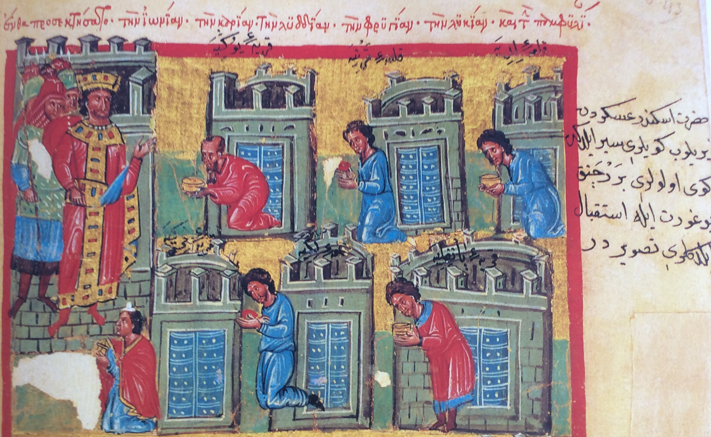 Kings submit to Alexander Hellenic Institute codex 5 f. 43r top (Alexander Romance recension gamma). According to the Turkish annotation they are offering bowls of yogurt